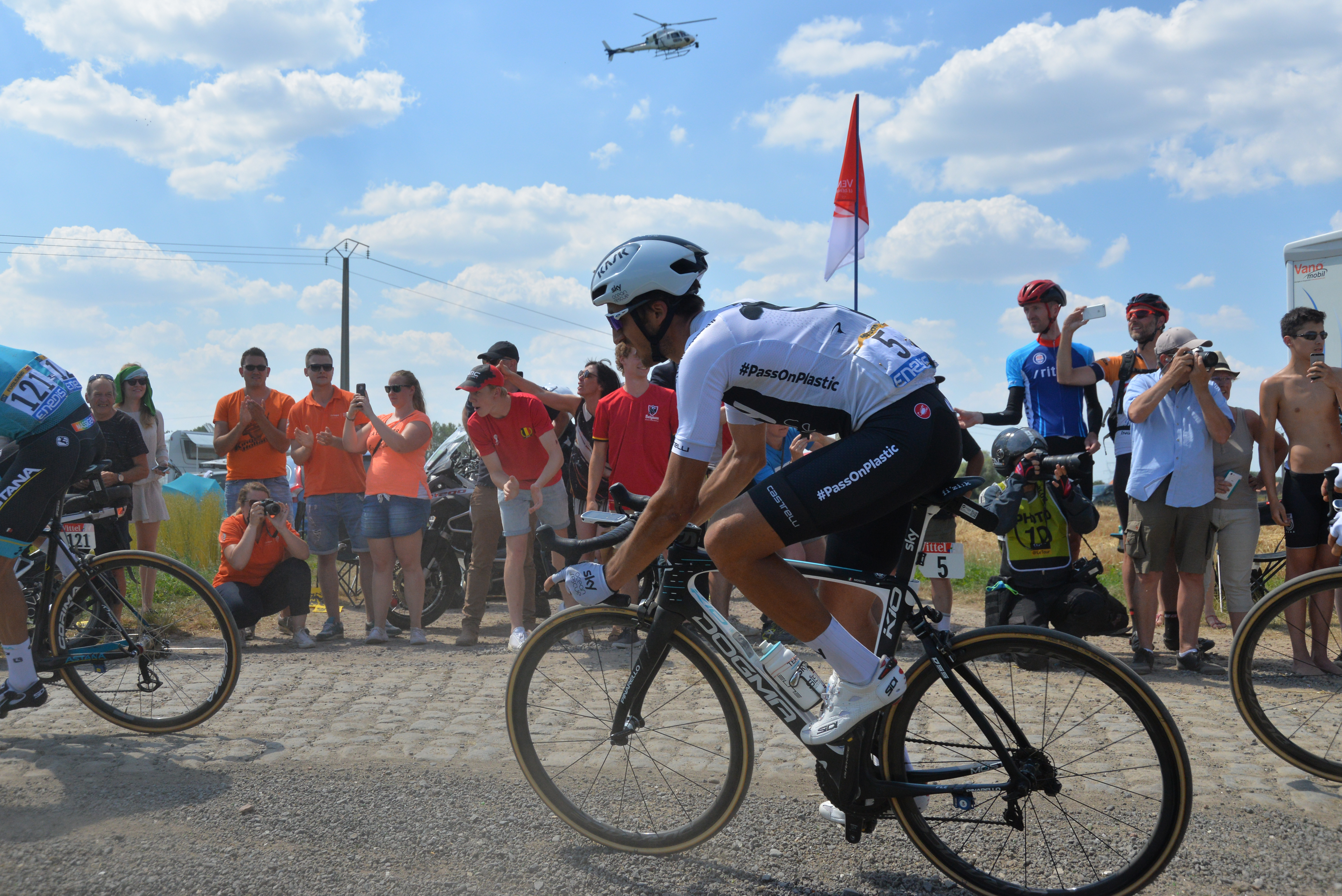 2018 Tour de France – stage 9 sector 9